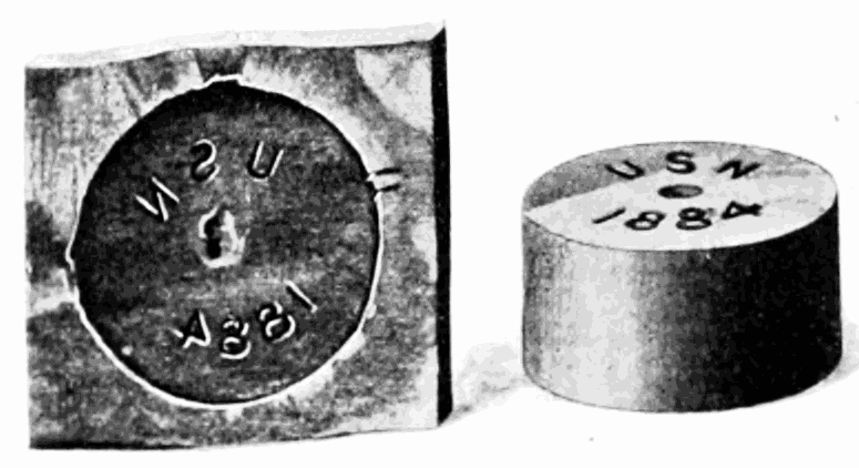 Gun cotton disk